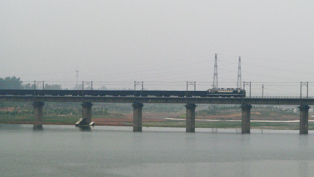 A train running on the Yi River Bridge of Jiaoliu Railway.